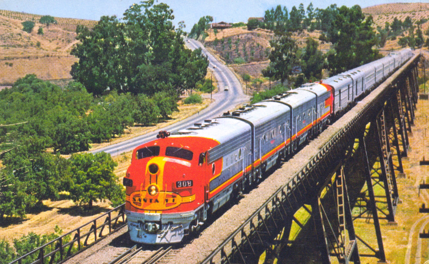 Postcard photo of the San Francisco Chief in California's San Joaquin Valley.